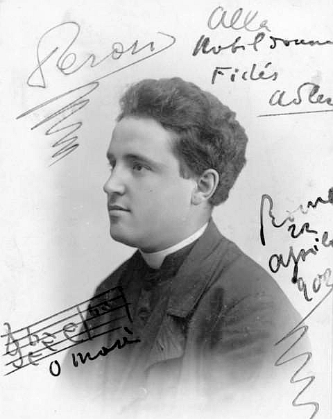 Italian composer Lorenzo Perosi (1872-1956).